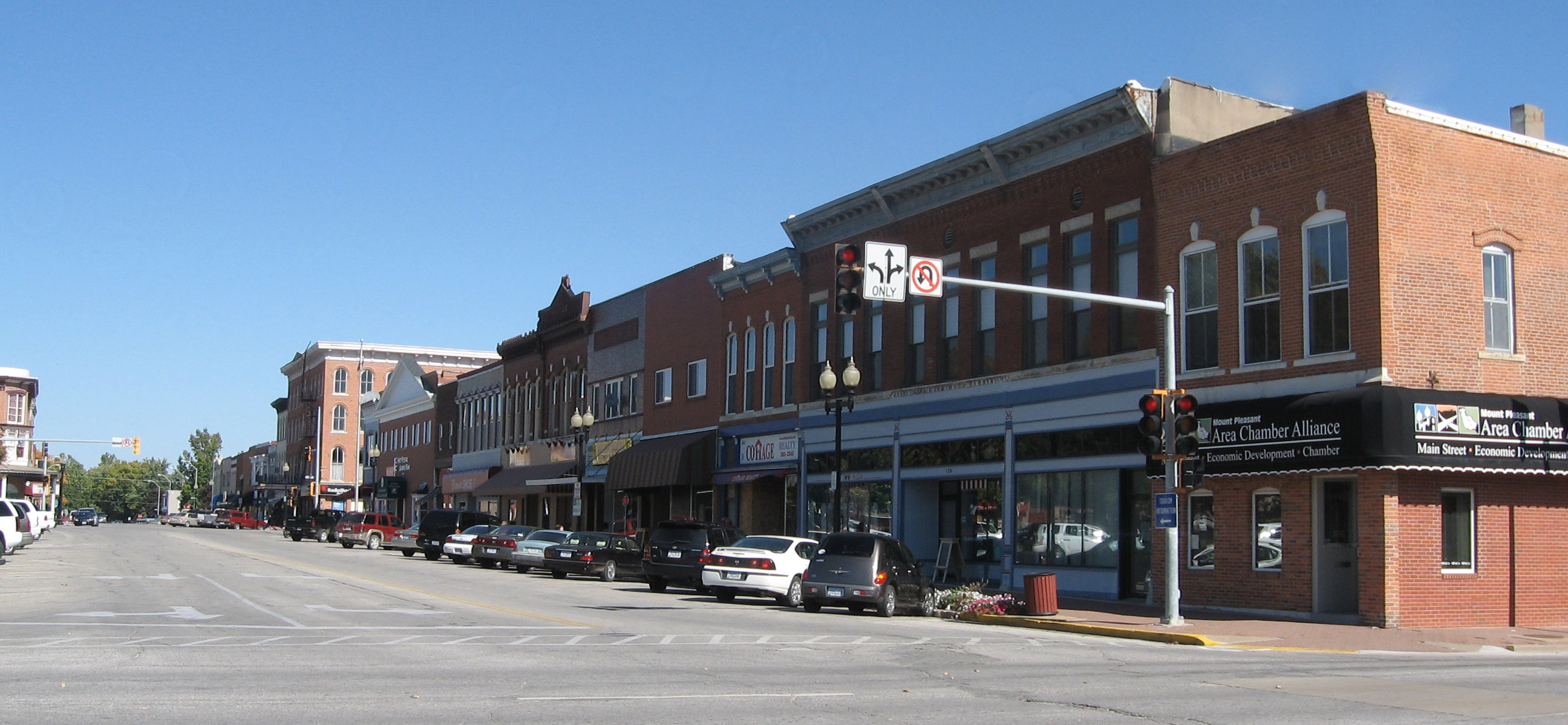 Mount Pleasant, Iowa [Added by Nyttend:] Looking southward down Main Street. The building at the center of the picture, housing Cottage Realty, is the Timmerman-Burd Building, listed on the National Register of Historic Places.